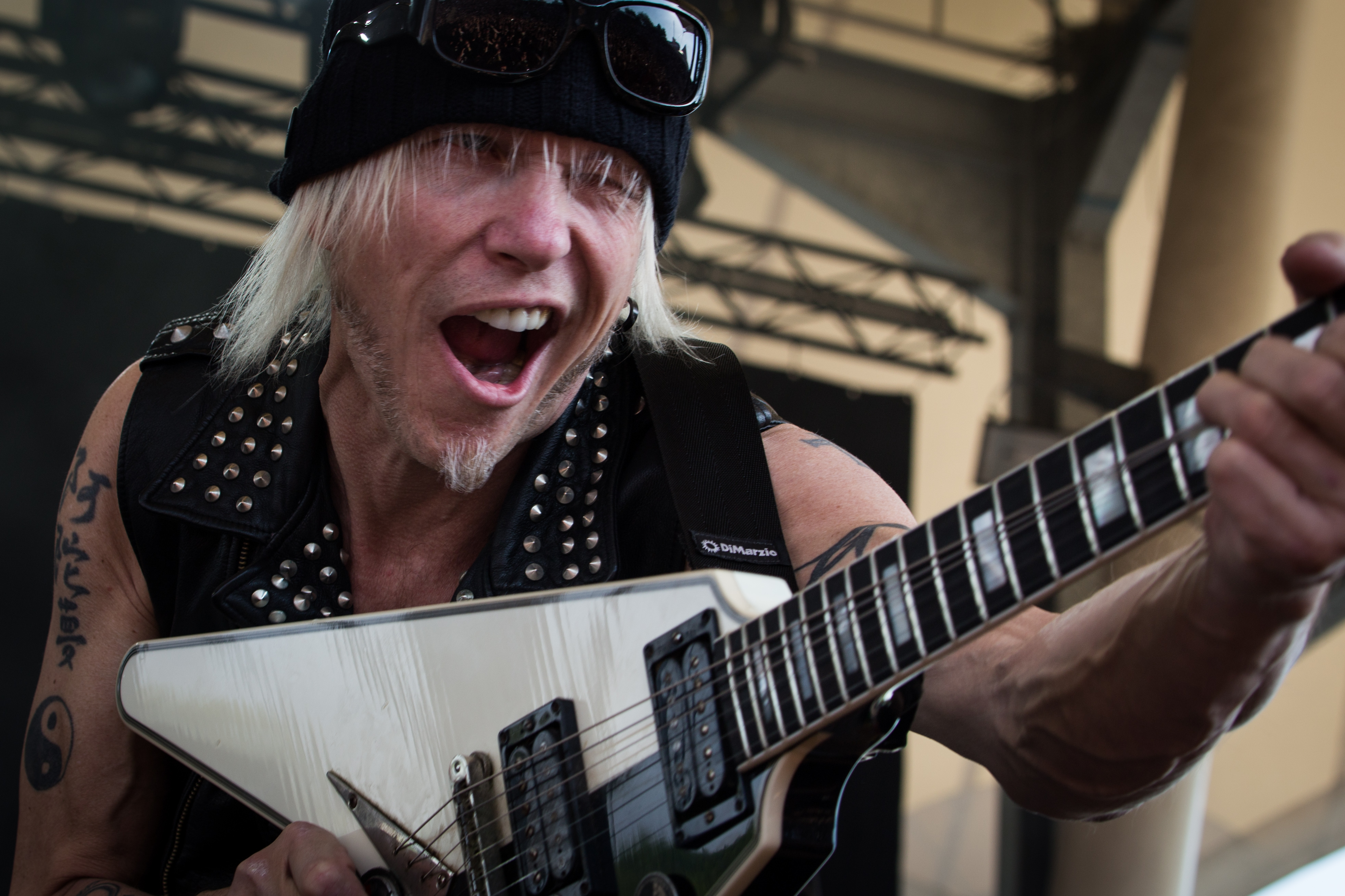 Michael Schenkers Temple of Rock performing live at Rock Hard Festival, May 2015, Gelsenkirchen